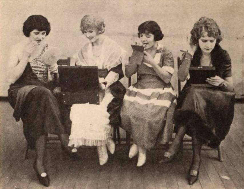 Still from the American comedy short Fixed by George (1920) with actresses Maude Wayne (1890 – 1983), Daisy Jefferson (1889 – 1967) (listed in the caption as Daisy Robinson), Beatrice La Plante, and Hazel Howell getting ready for the next shot, on page 100 of the November 13, 1920 Exhibitors Herald.